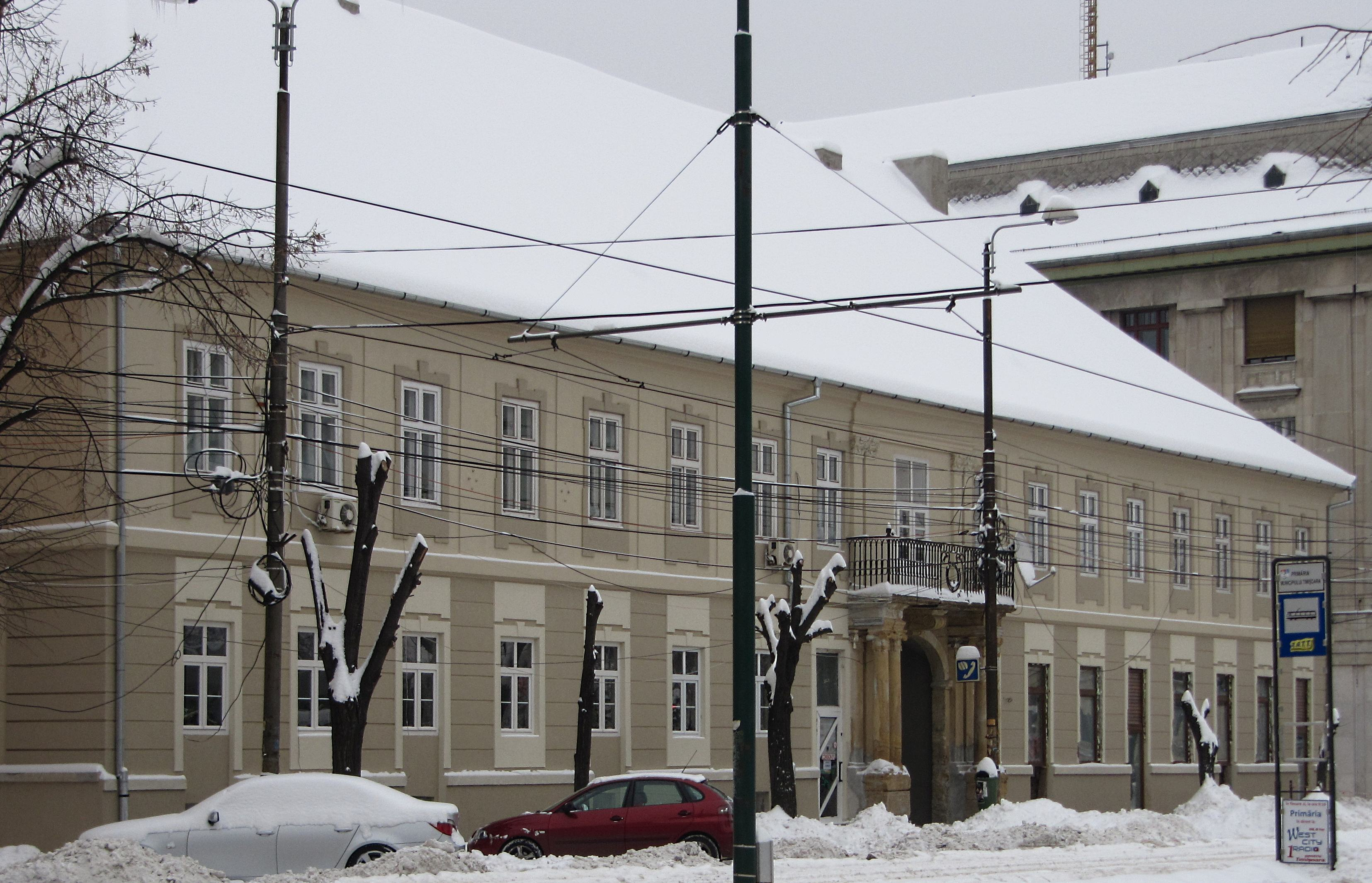 Count of Mercy House, Timisoara, Romania